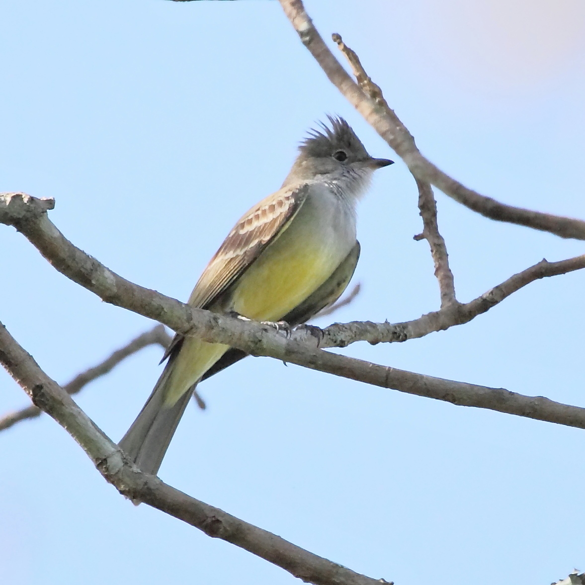 Large Elaenia at Dourado - SP - Brazil